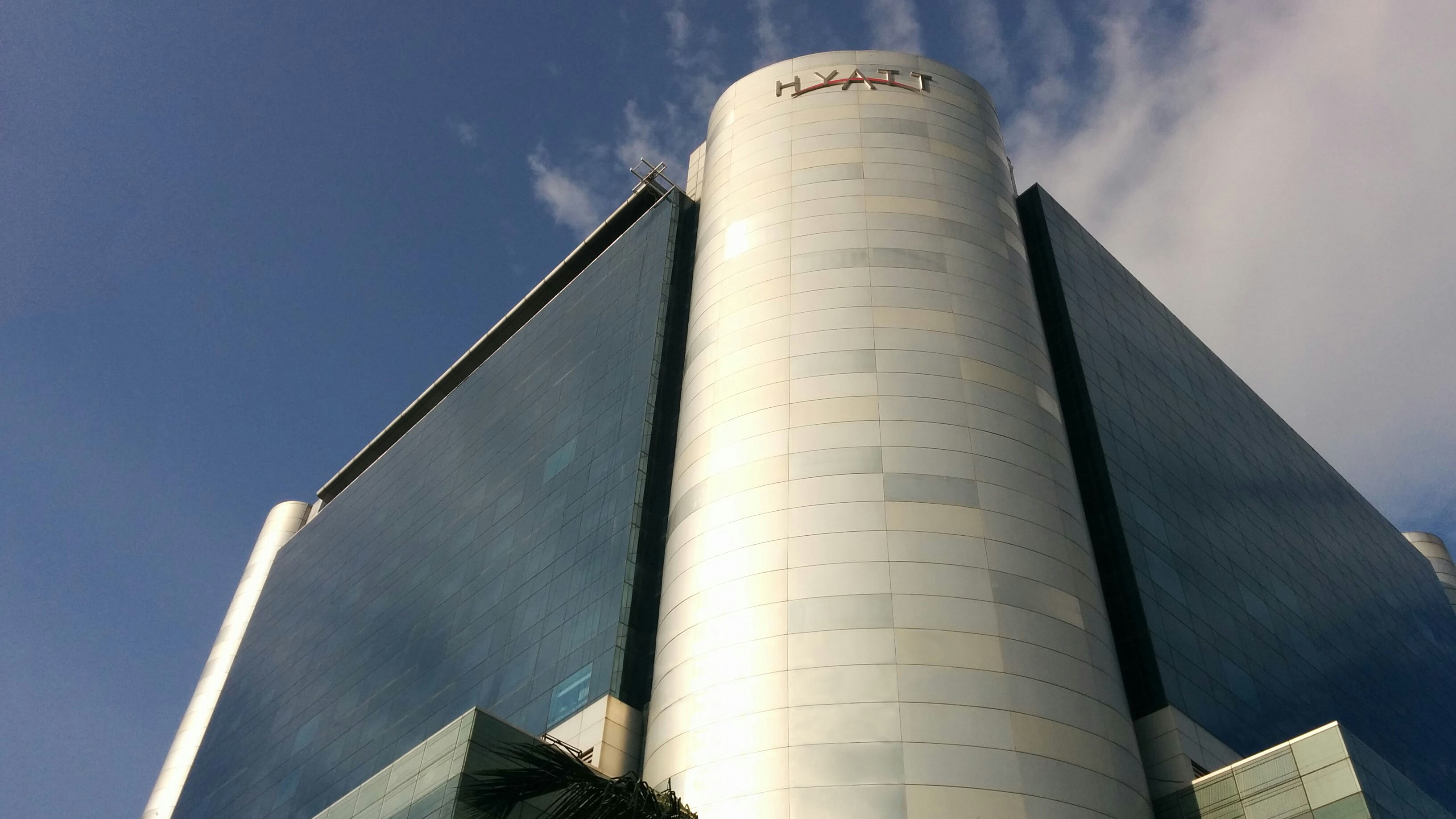 Picture of Hyatt Regency Chennai as seen from below the building